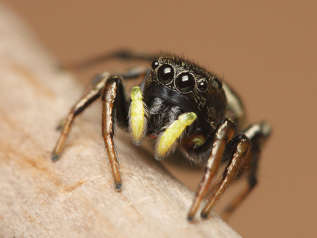 Jumping spider - Heliophanus sp.